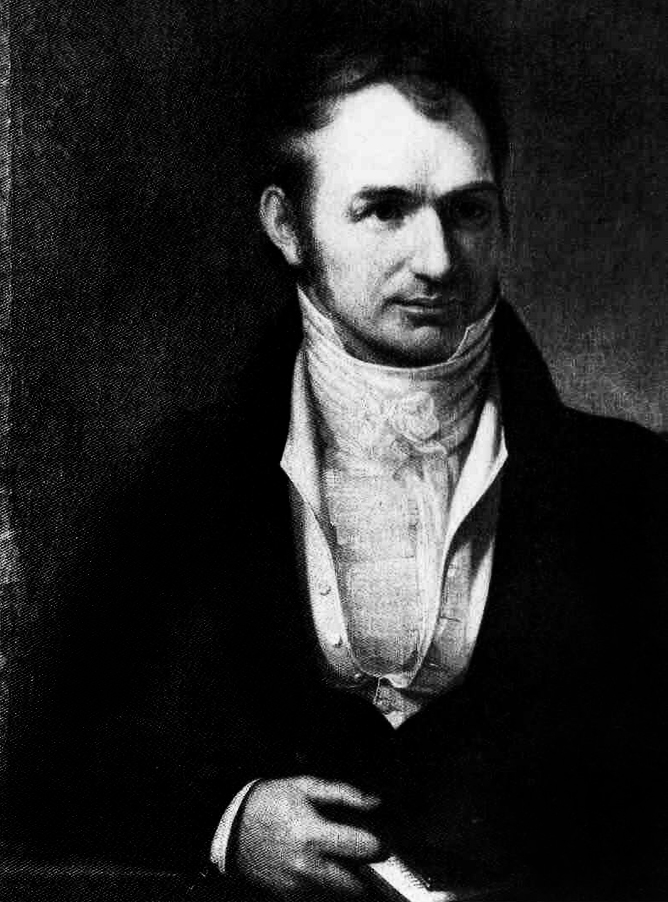 Reproduction of Painting of Horace H. Hayden